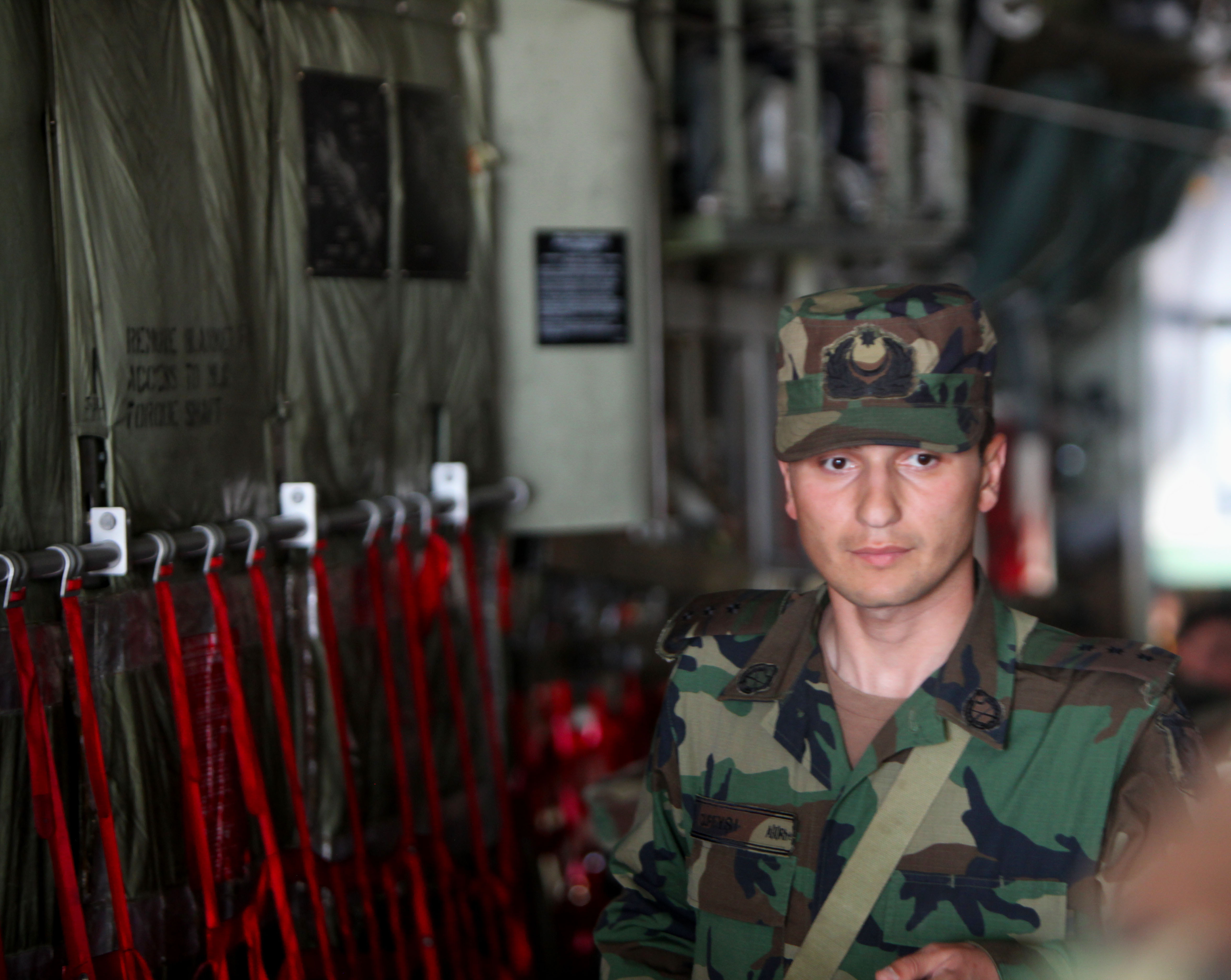 An Azeri army officer boards an American KC-130 in Baku, Azerbaijan, May 6. The Black Sea Rotational Force 12 Aviation Combat Element landed a KC-130 cargo airplane in Baku to transport an Azeri army contingent from Azerbaijan to Romania for training designed to enhance interoperability and promote regional stability while maintaining a crisis response froce in the Black Sea, Balkan and Caucasus regions. (U.S. Marine Corps photo by Staff Sgt. Nate Hauser)